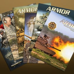 Covers of representational back issues for ARMOR magazine, the professional-development publication of the U.S. Army Armor School. For Wikipedia page